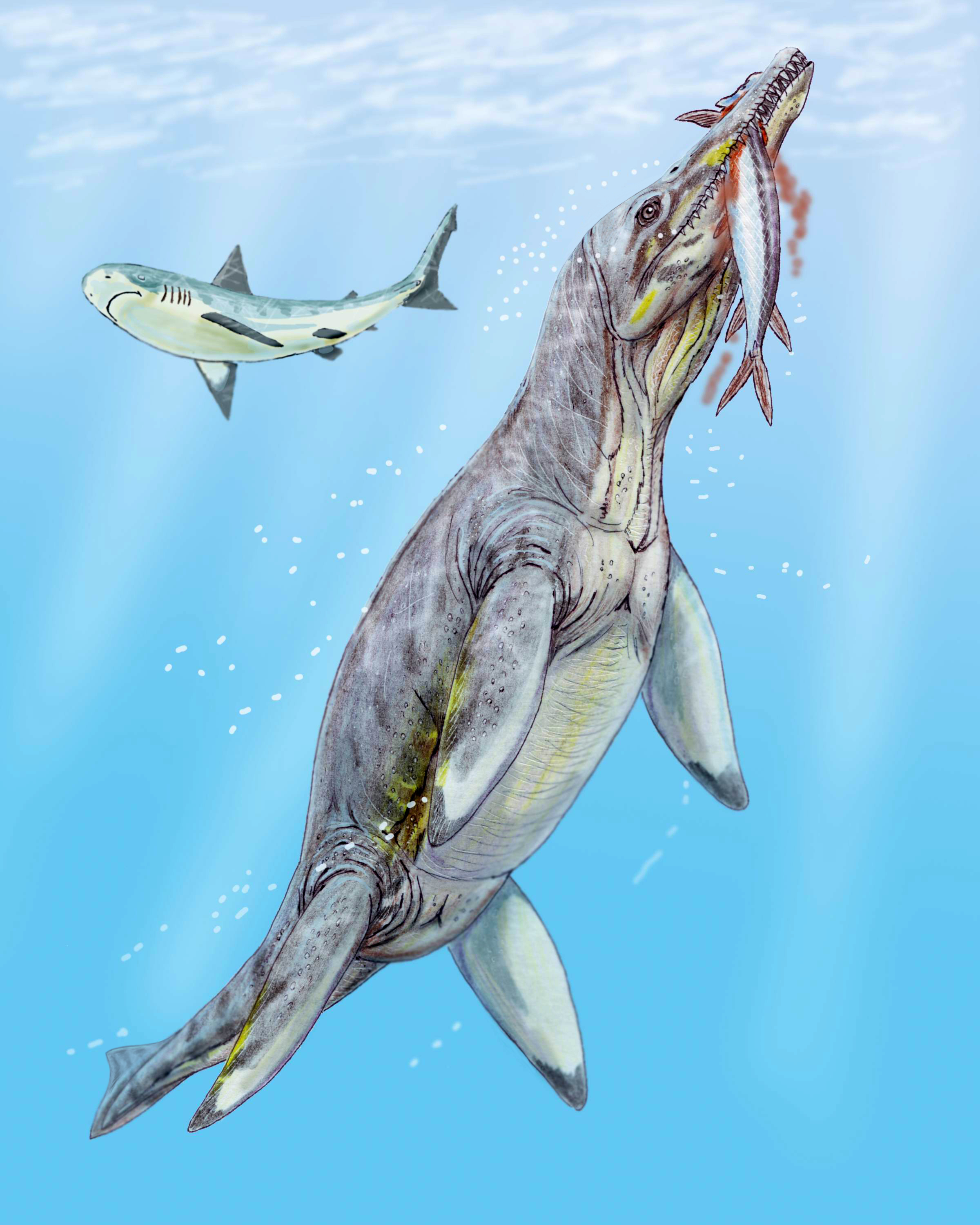 Polyptychodon interruptus - giant pliosaur from Cenomanian of England